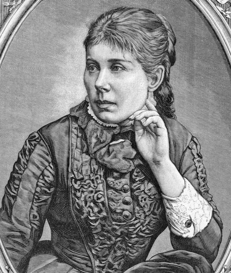 Maria Konopnicka